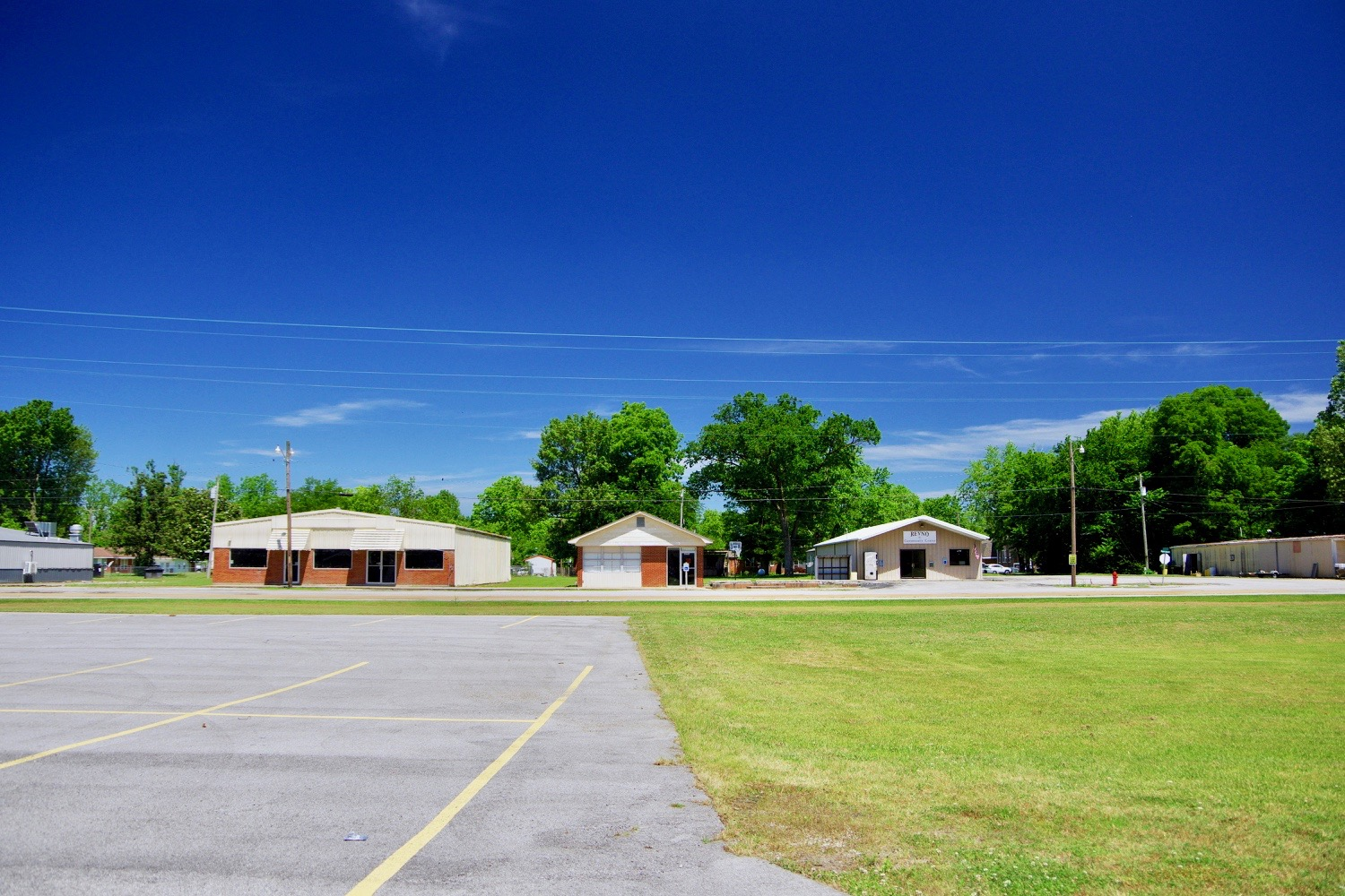 Post office and community center in Reyno, Arkansas, United States